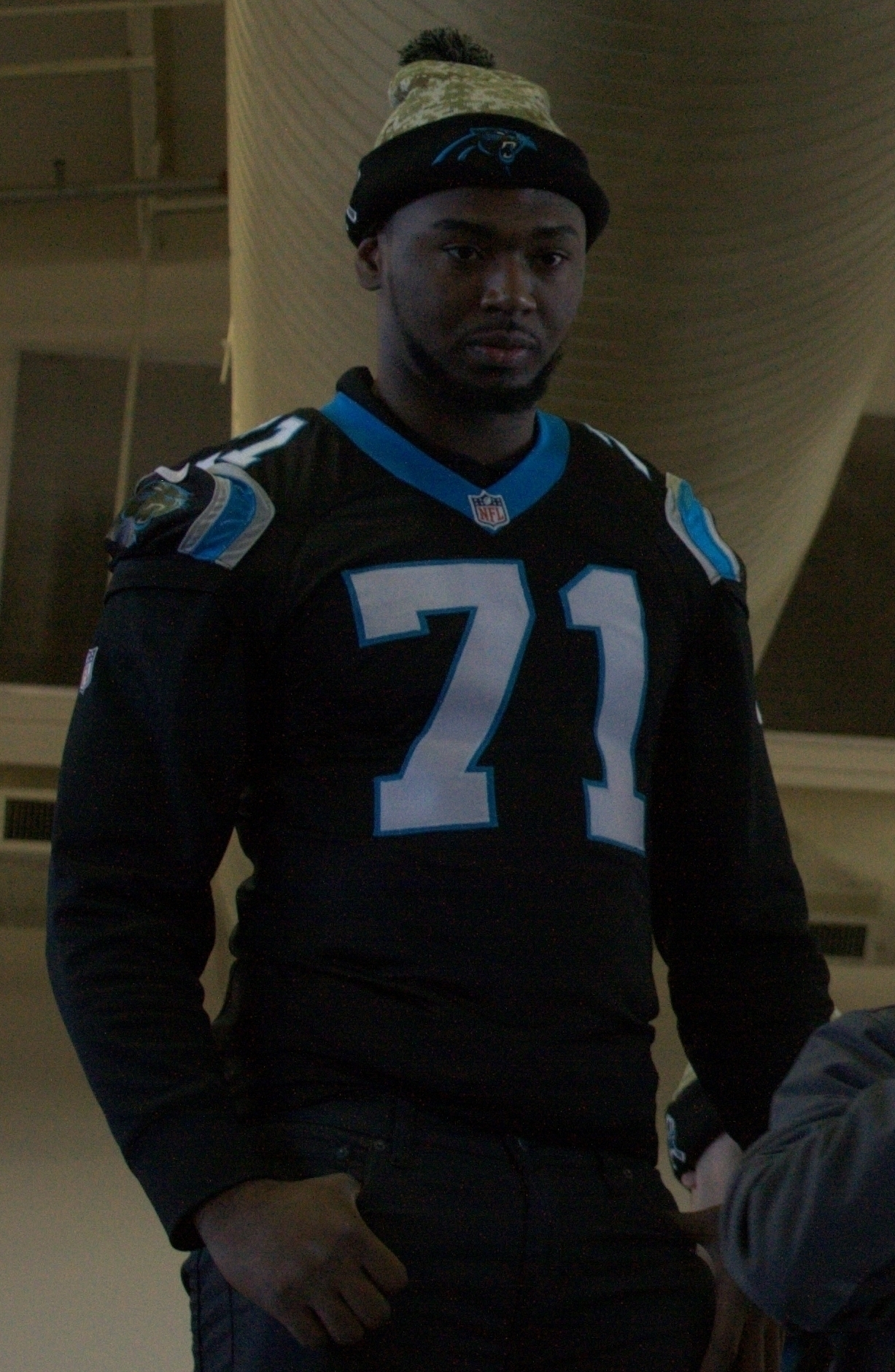 Carolina Panthers defensive end, Arthur Miley, waits with Carolina cheerleaders and mascot to draw the winning lottery numbers as soldiers wait patiently, hoping their ticket number will be called for an opportunity to earn partner-nation jump wings at the 18th Annual Randy Oler Memorial Operation Toy Drop, hosted by U.S. Army Civil Affairs & Psychological Operations Command (Airborne), Dec. 4, 2015 at Pope Field, N.C. Operation Toy Drop is the world’s largest combined airborne operation and collective training exercise with seven partner-nation paratroopers participating which allows Soldiers the opportunity to help children in need receive toys for the holidays. (U.S. Army photo by SGT Destiny Mann) Unit: 352nd Civil Affairs Command PAO